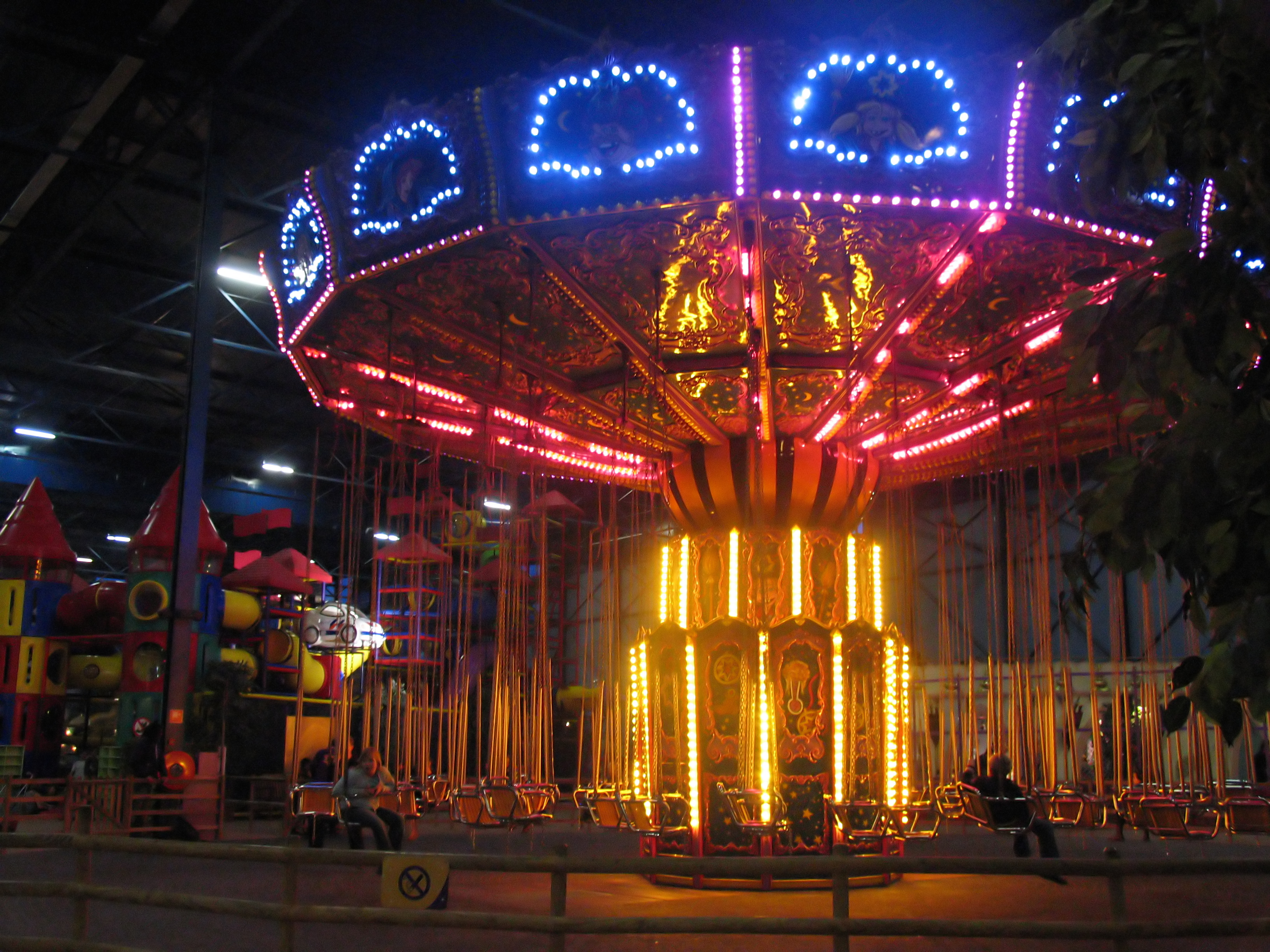 Carousel at Toverland, Netherlands